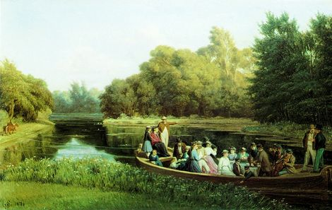 "The Puggård sailing on Esrum Canal" in Nordsjælland, Denmark